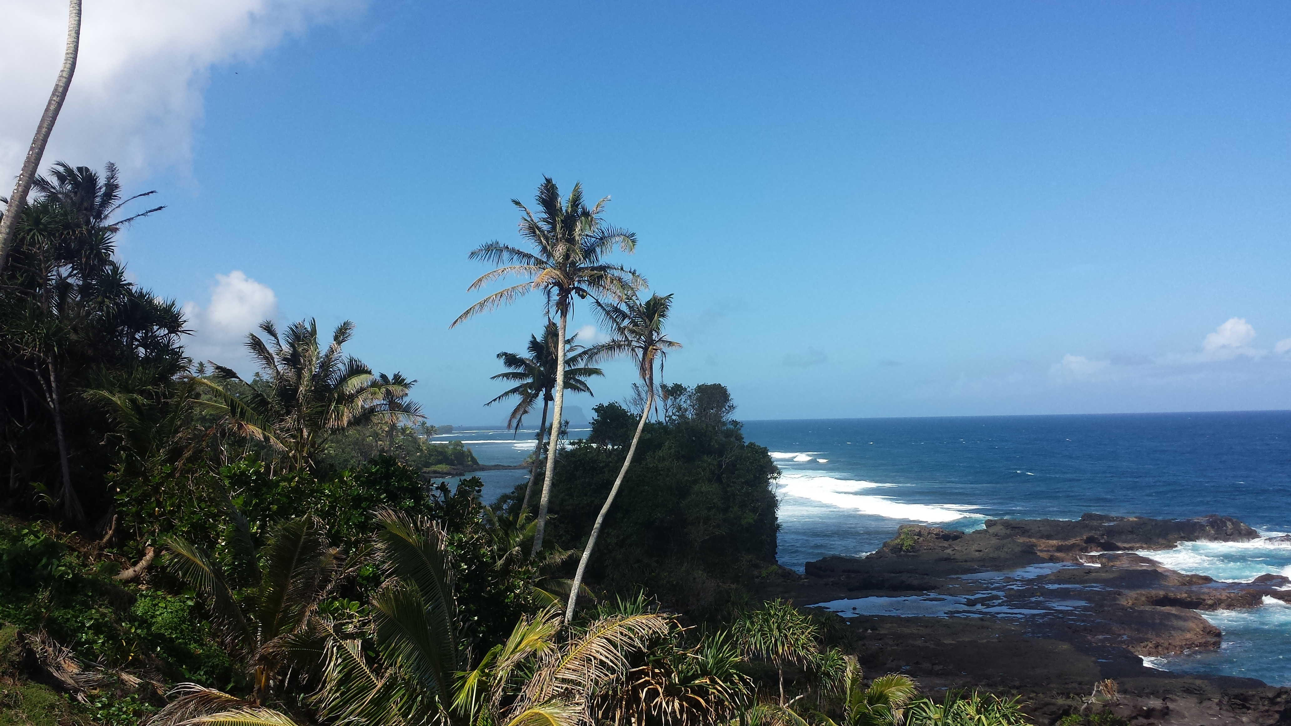 View of the south-eastern coast of Upolu, Samoa, looking east towards Nu'utele island, which can be seen in the distance. August 2016.